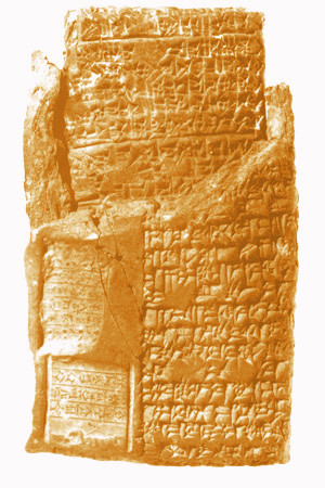 Babylonian legal tablet from Alalakh in its clay envelope.